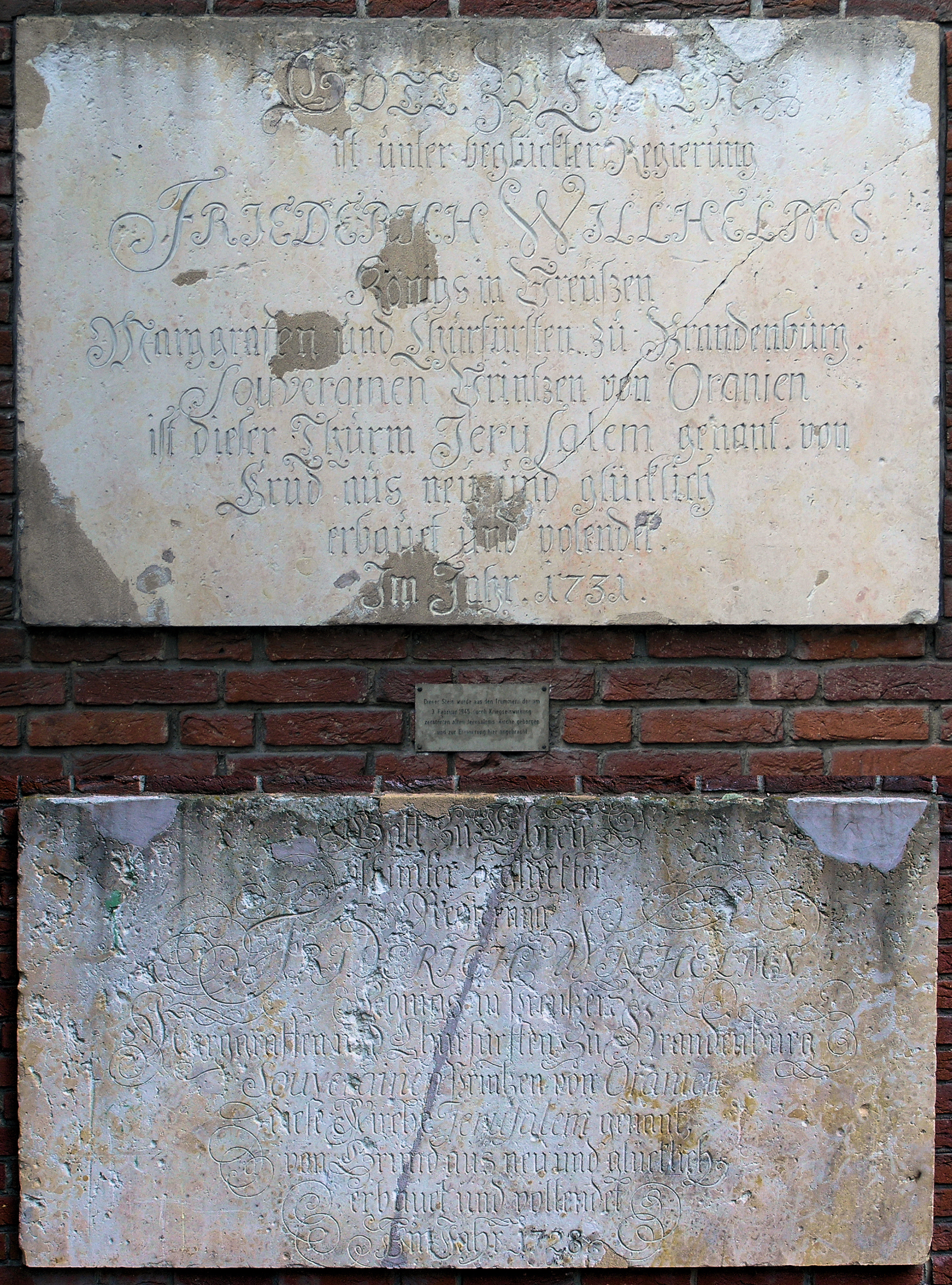 Memorial plaque, Jerusalemskirche, Lindenstraße 85, Berlin-Kreuzberg, Germany Koordinate:52°30′13″N 13°23′43″E / 52.50361°N 13.39528°E